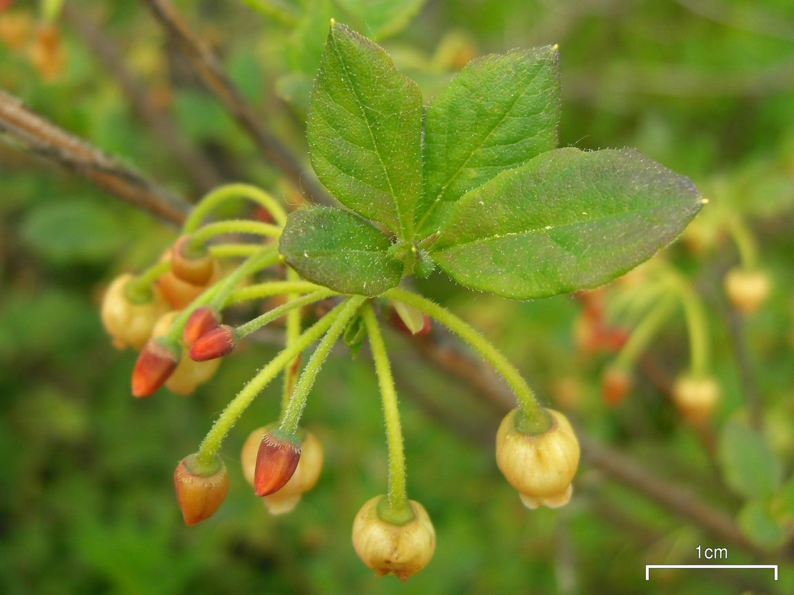 Menziesia ferruginea Smith 20090629.30 Trophy Meadows, Wells Gray Park, BC The distinctive white-tipped leaves help distinguish this from real Rhododendron species.